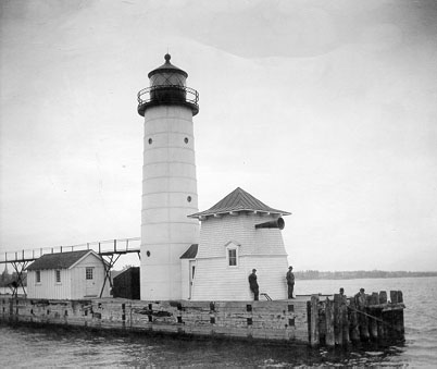 Public Domain statement here; The Kenosha North Pier lighthouse is a lighthouse located near Kenosha in Kenosha County, Wisconsin.